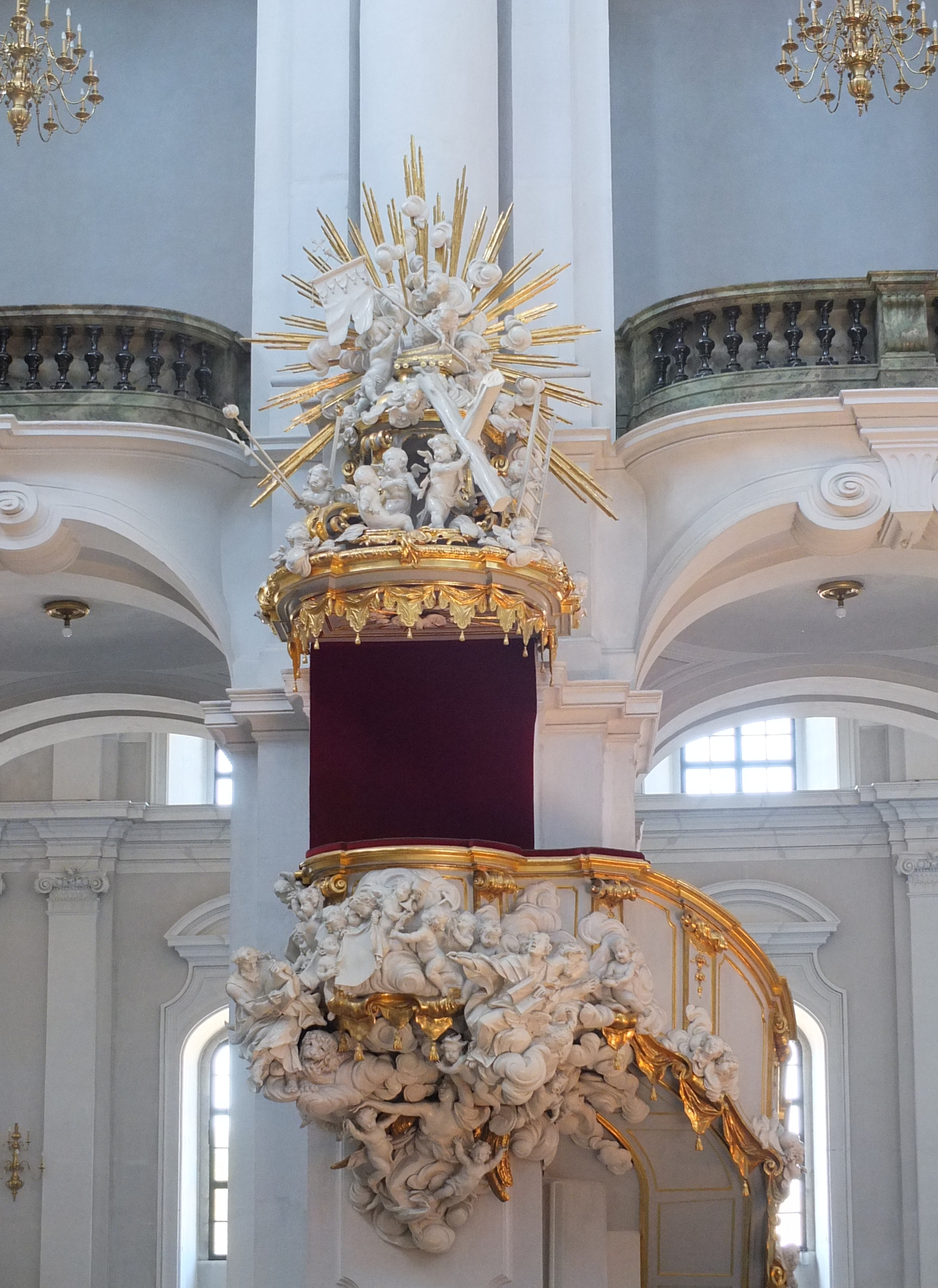 Pulpit of of Dresden Cathedral ( Katholische Hofkirche, Cathedral of the Holy Trinity), Dresden.